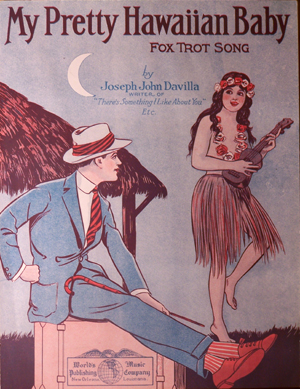 "My Pretty Hawaiian Baby" sheet music cover.